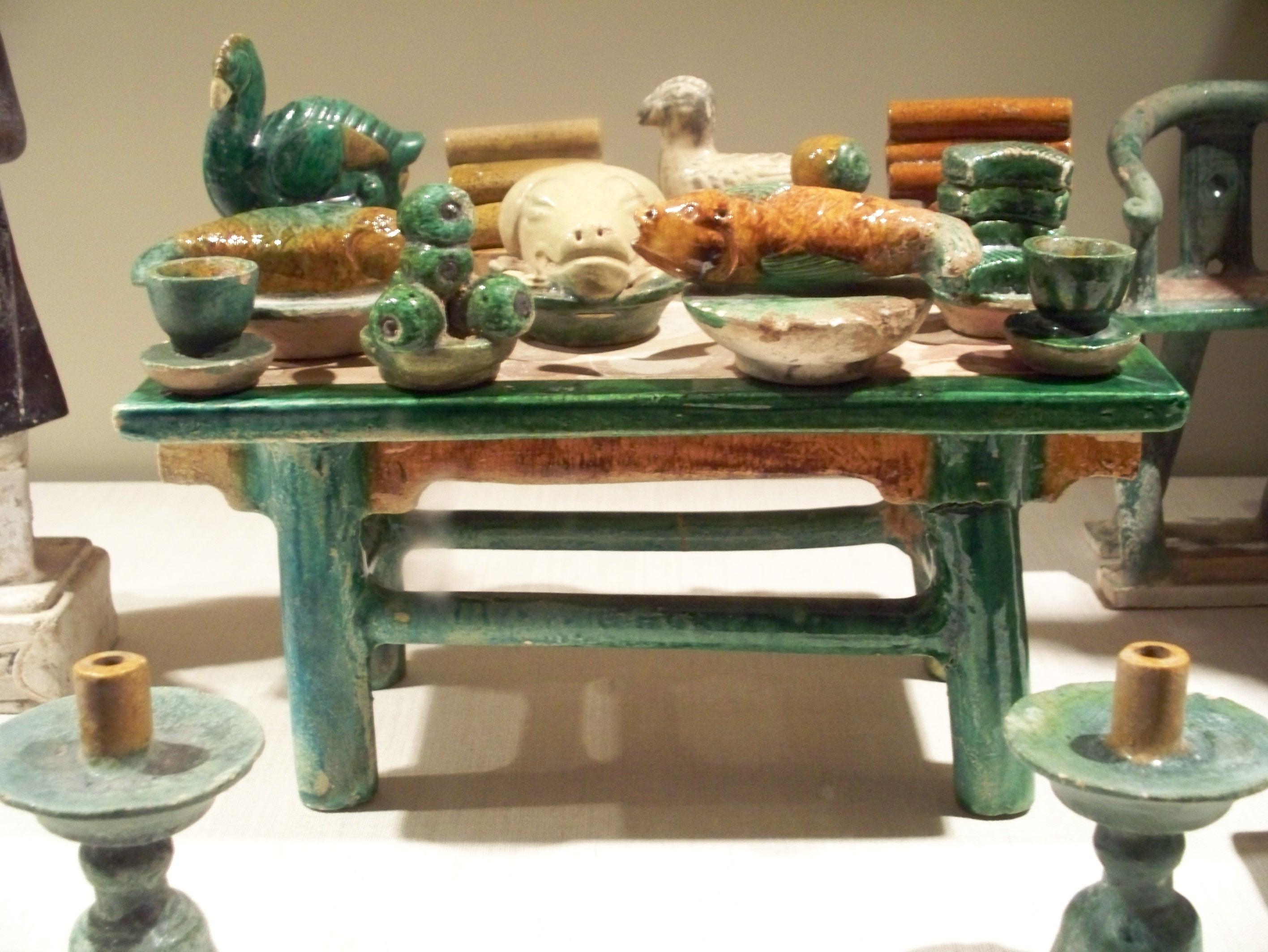 burial figurine: table Creation date 1500s Dynasty Ming dynasty Materials stoneware with glaze Dimensions 5 5/8 x 12 x 6 7/8 in. Wikipedia Loves Art at the Indianapolis Museum of Art This photo of item # 1992.132 at the Indianapolis Museum of Art was contributed under the team name "Opal_Art_Seekers_4" as part of the Wikipedia Loves Art project in February 2009. Indianapolis Museum of Art The original photograph on Flickr was taken by Forever Wiser—please add a comment to the original Flickr page whenever a use has been made on Wikipedia or another project. Project galleries on Flickr: this institution, this team